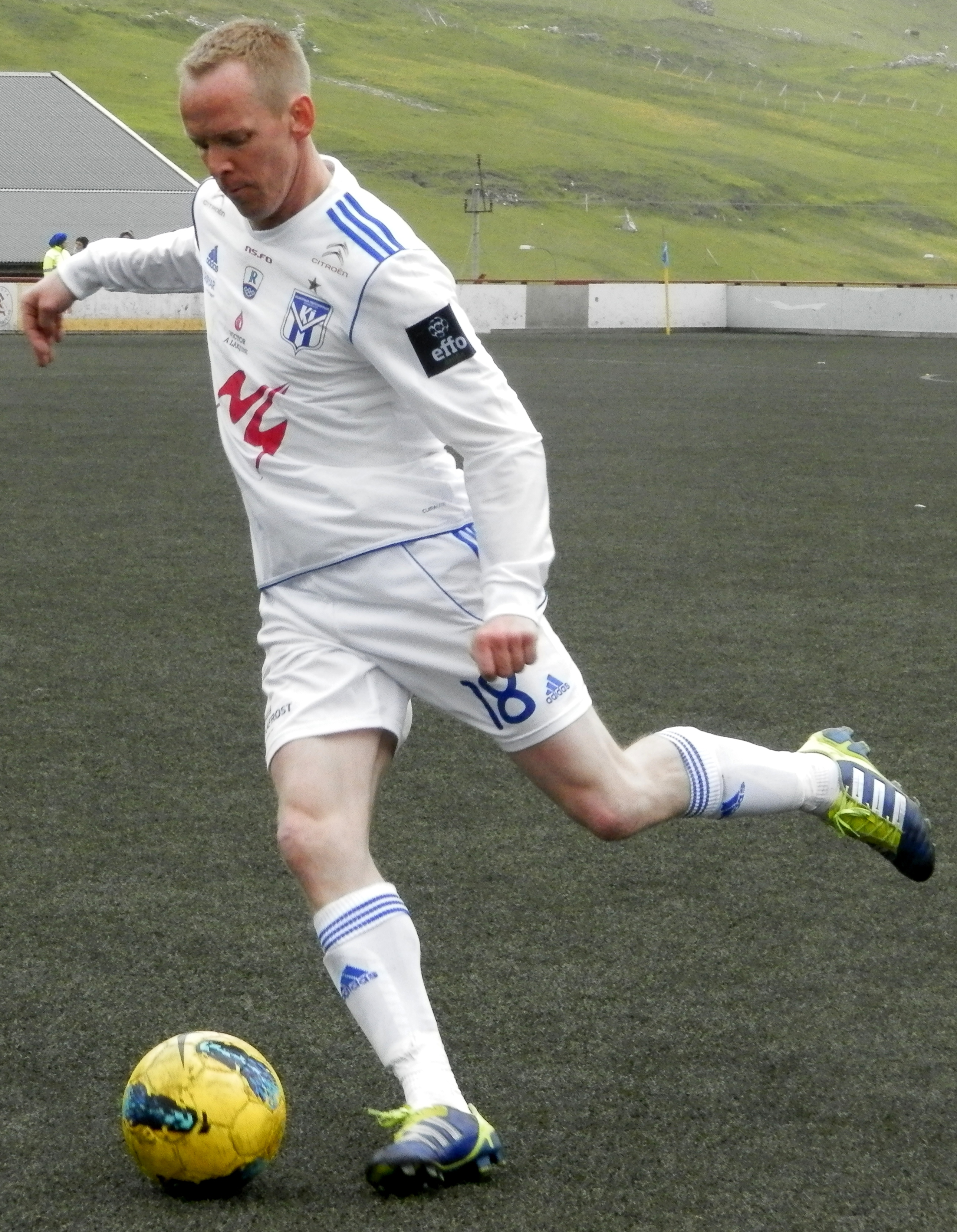 Heðin á Lakjuni is a Faroese football (soccer) player who currently (2012) plays for KÍ Klaksvík. He has earlier played for NSÍ Runavík, B36 Tórshavn and HB Tórshavn. He played for the Faroe Islands national team from 1997 to 2005 and for the U19 team of the Faroe Islands in 1995.